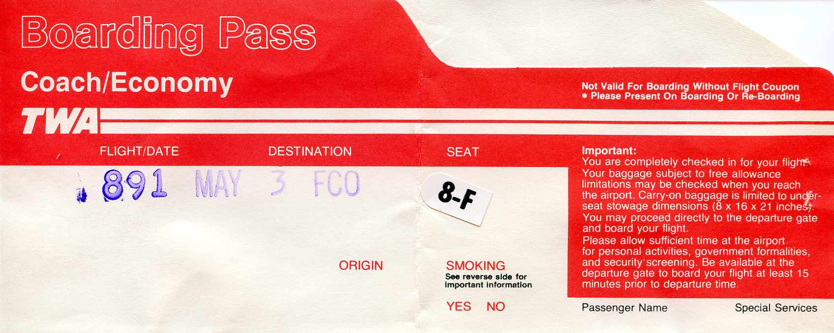 United States, Trans World Airlines boarding pass issued on May 03, 1980 for flight 891 from Tel Aviv to Rome.